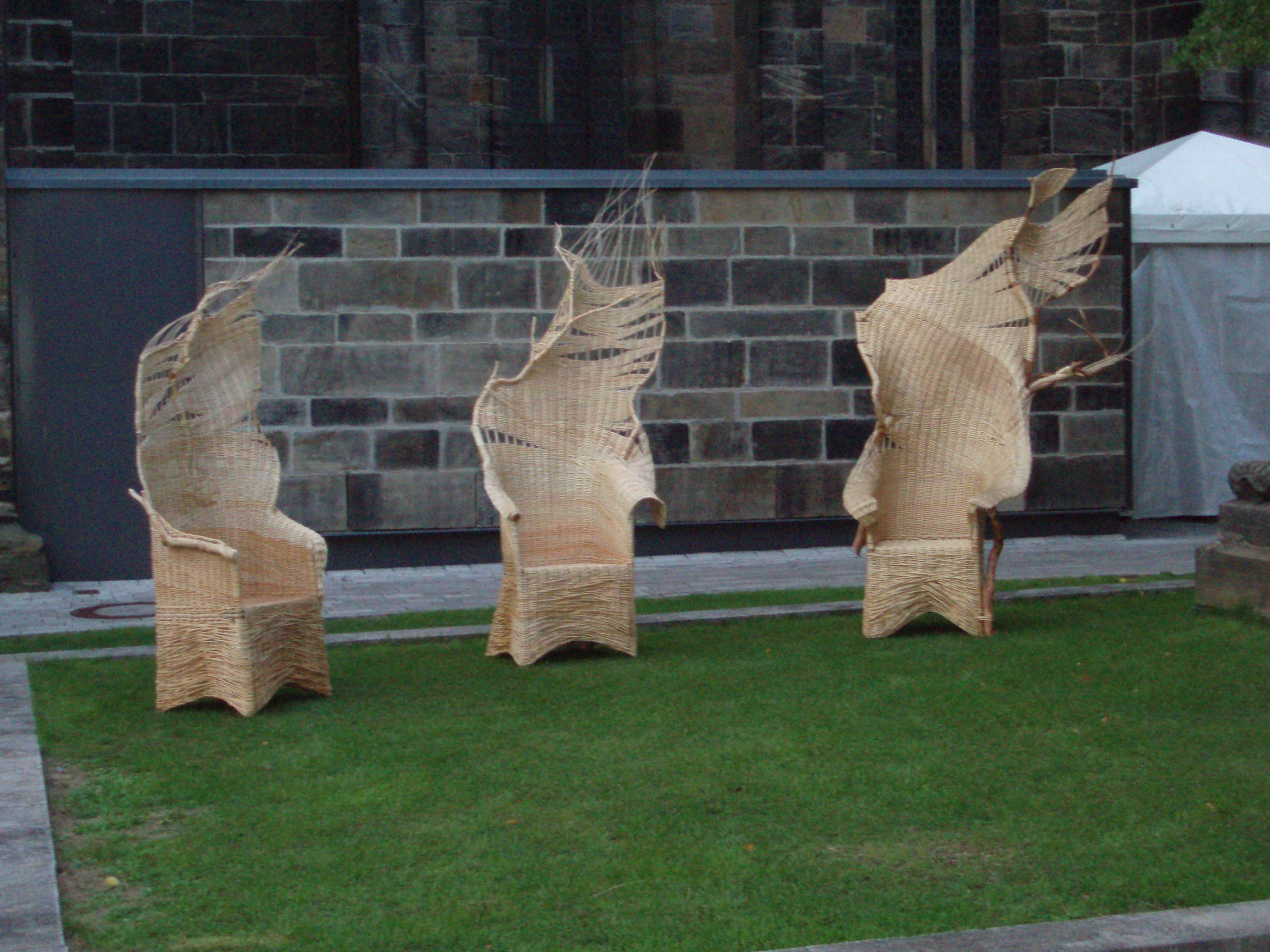 Korbmarkt Lichtenfels 2008